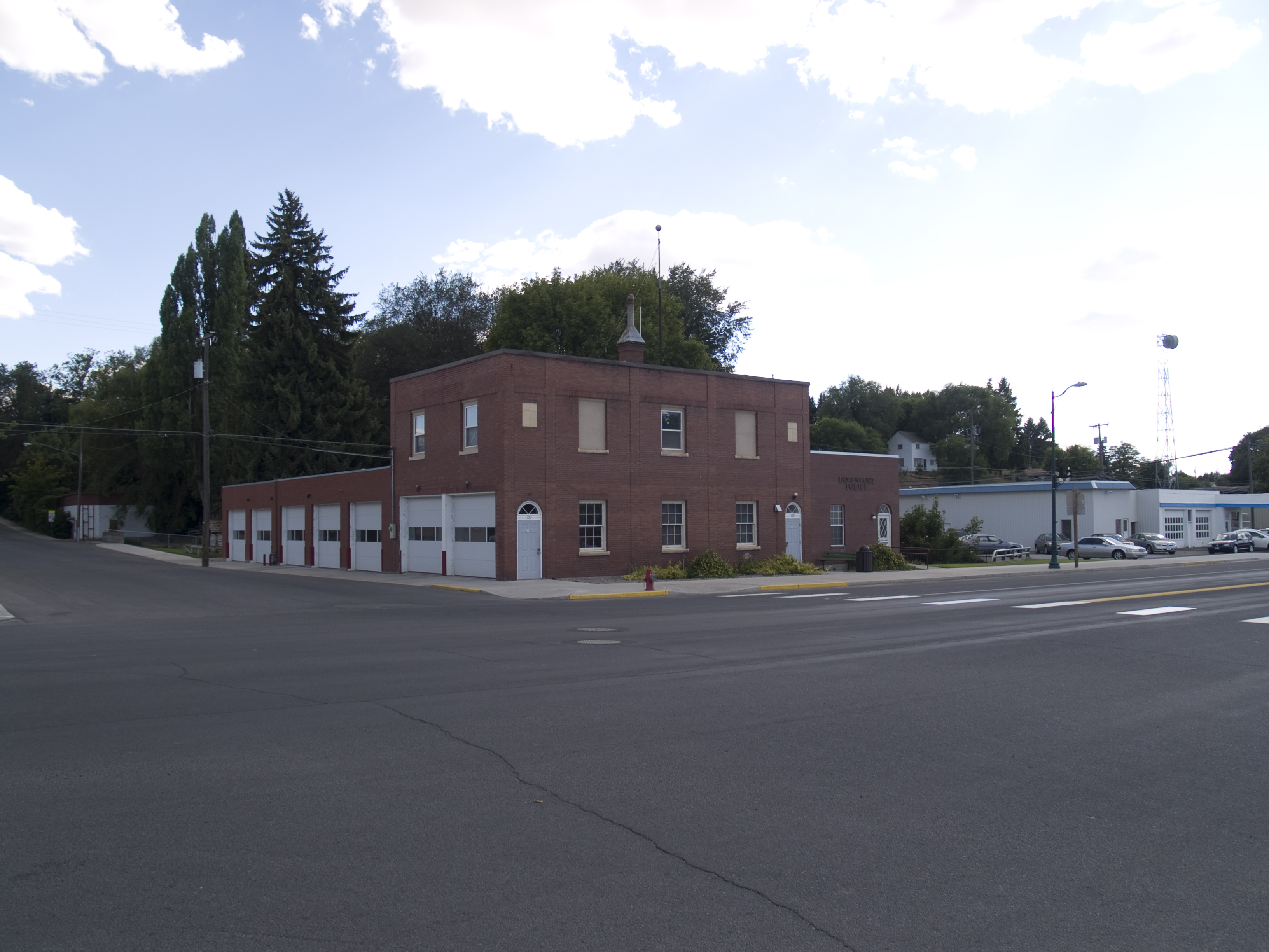 From